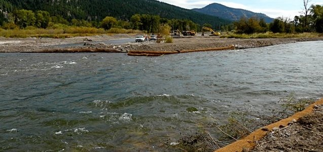 The initial stream bank stabilization in the CFR 3b area upstream of the Milltown Reservoir Superfund Site being done by the State of Montana's contractor, Envirocon.